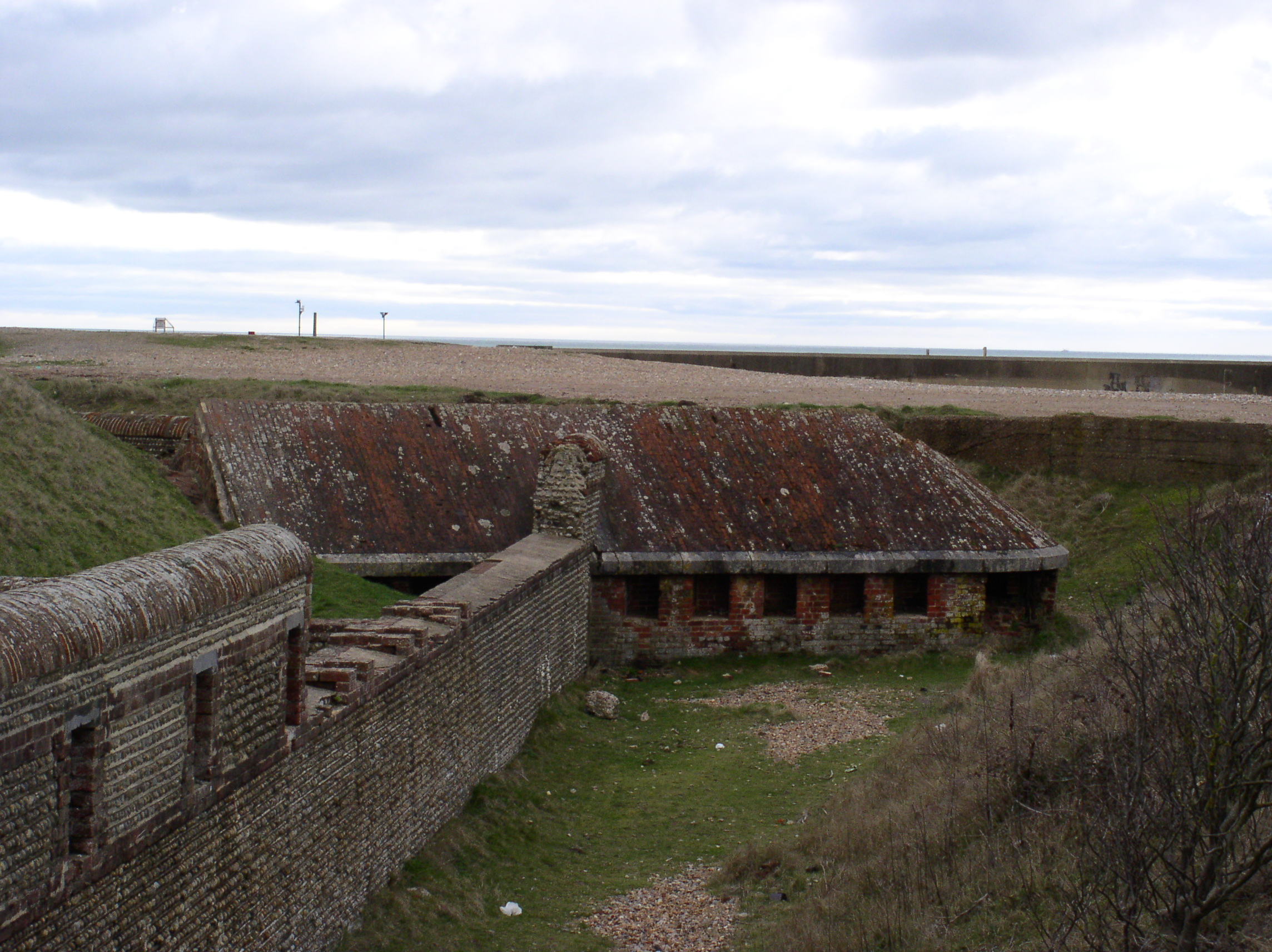 The central caponnier at Shoreham Fort.